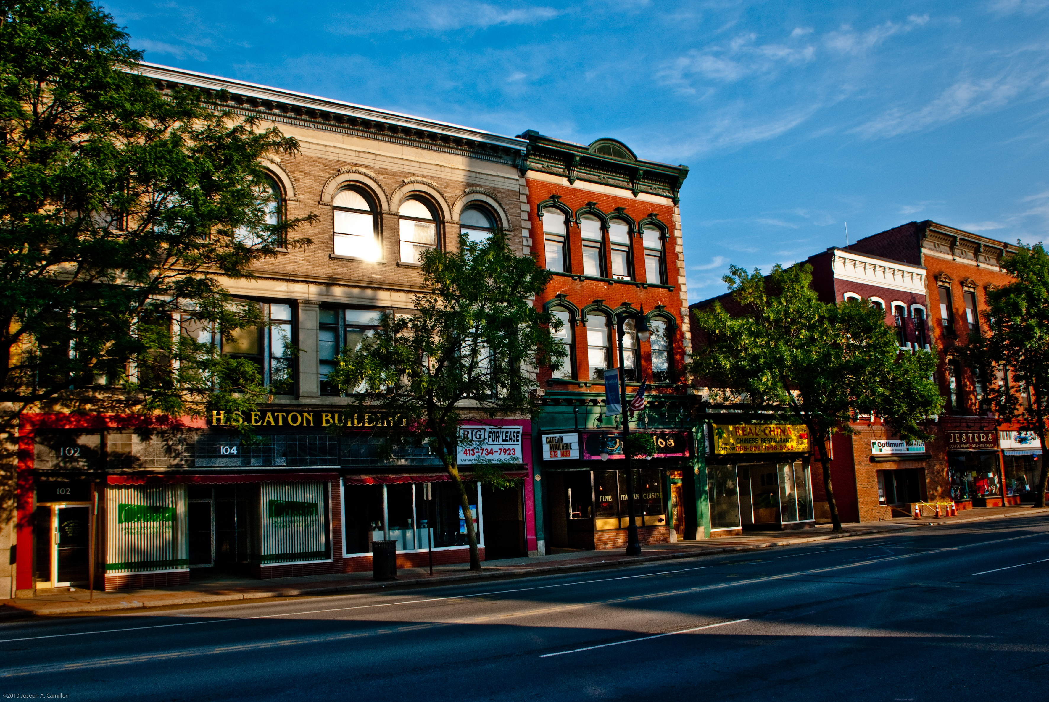 Downtown shops in Westfield, Massachusetts